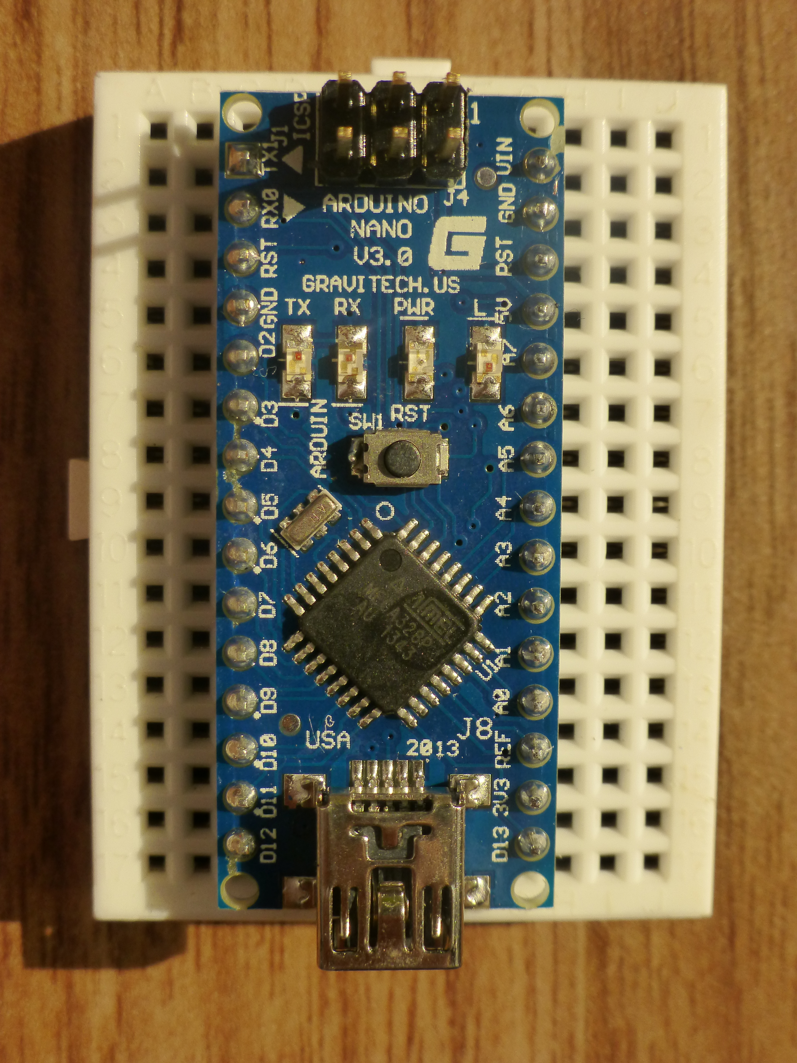 Arduino nano